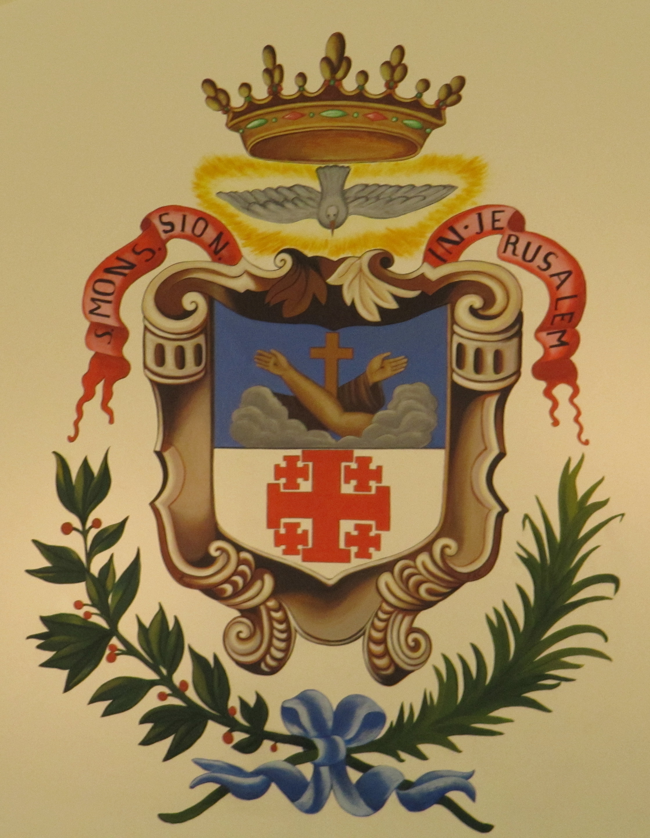 A coat of arms of the Franciscan custodianship of the Holy Land.